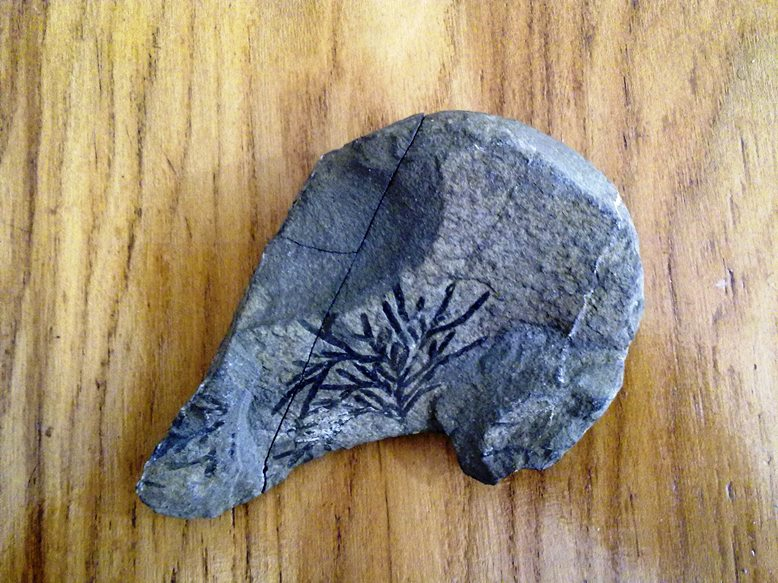 یک فسیل که از نوعی گیاه در پره سر یافت شده است